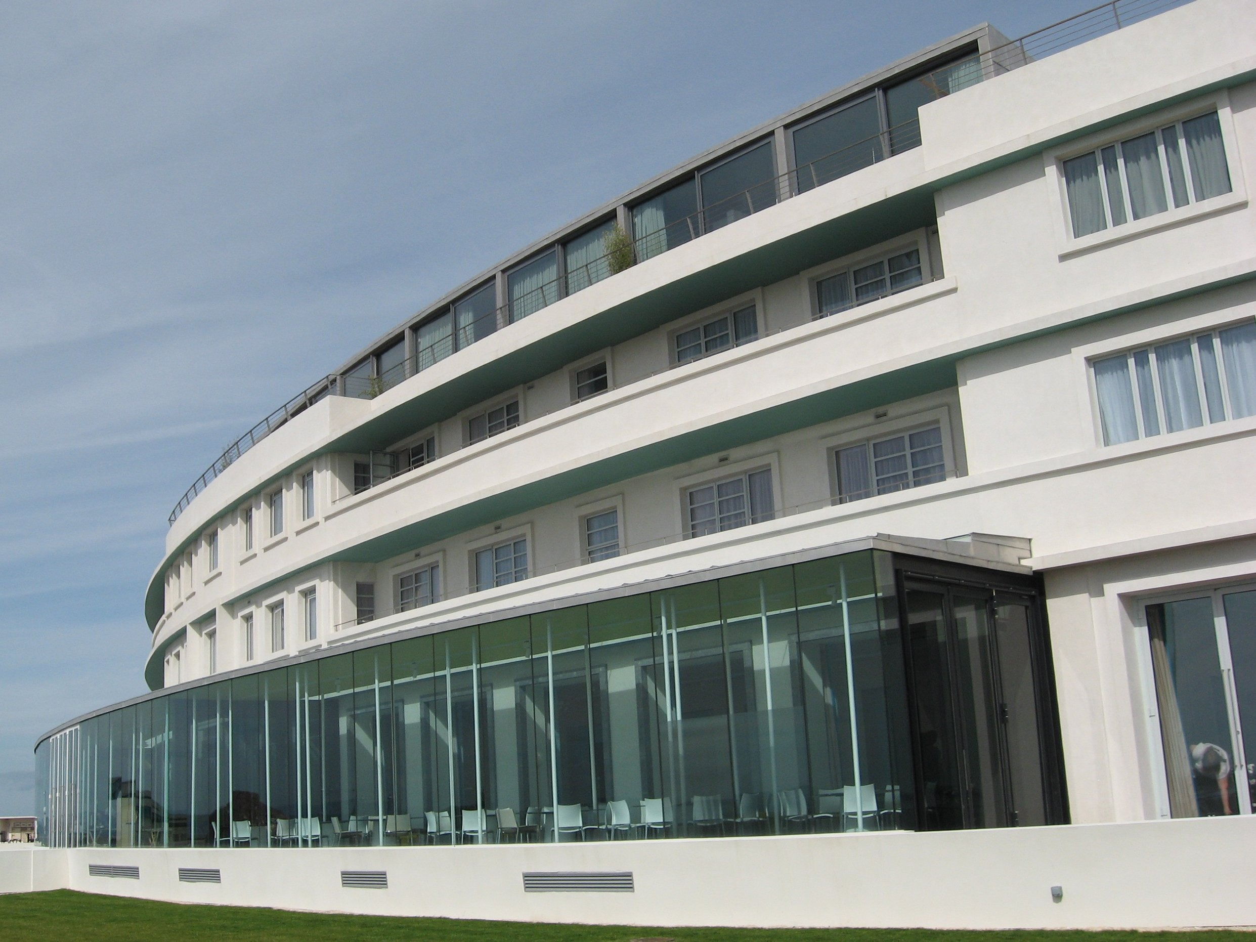 Midland Hotel, Morecambe